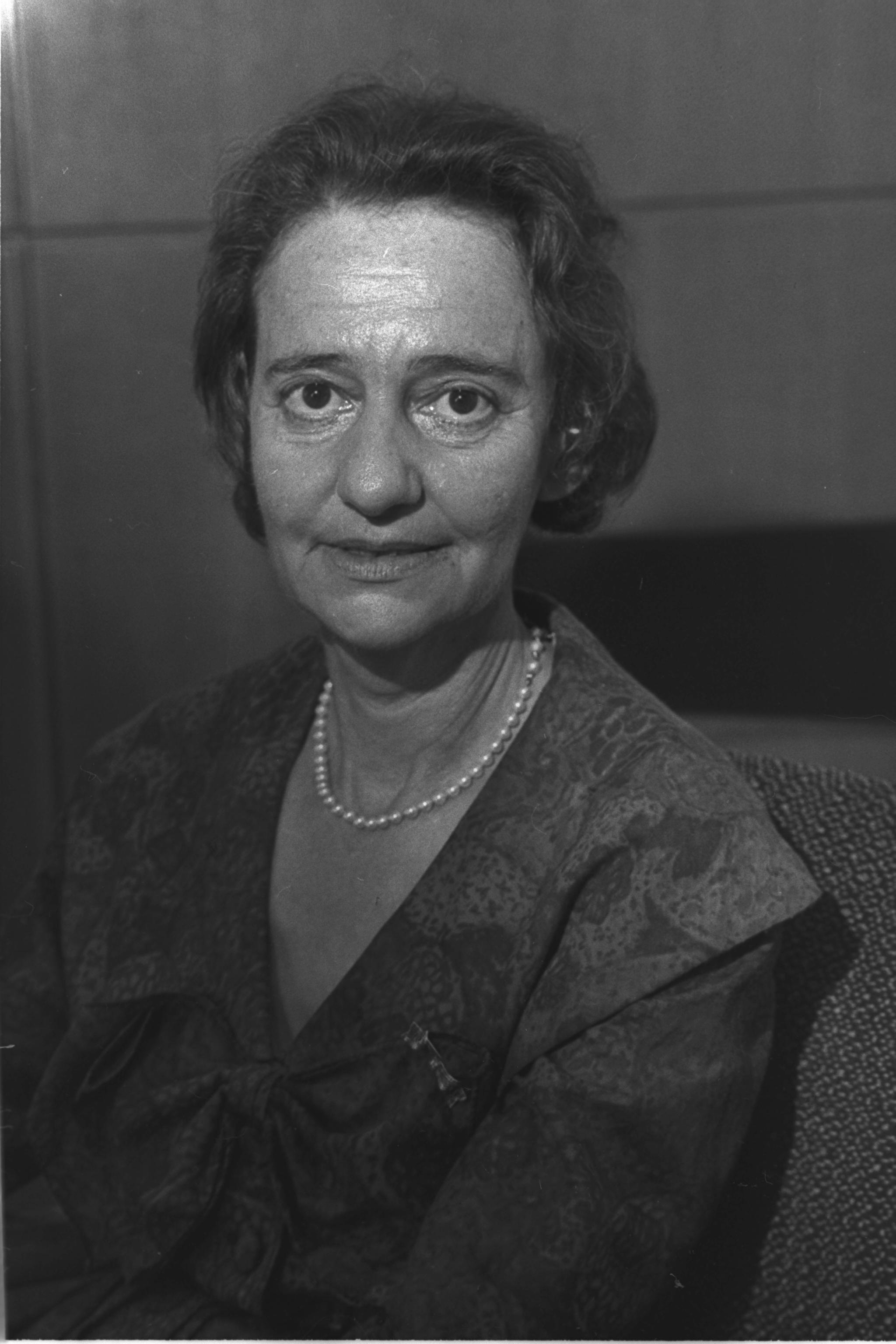 Poetess Lea Goldberg, a Hebrew poet, author, playwright, literary translator, and comparative literary researche